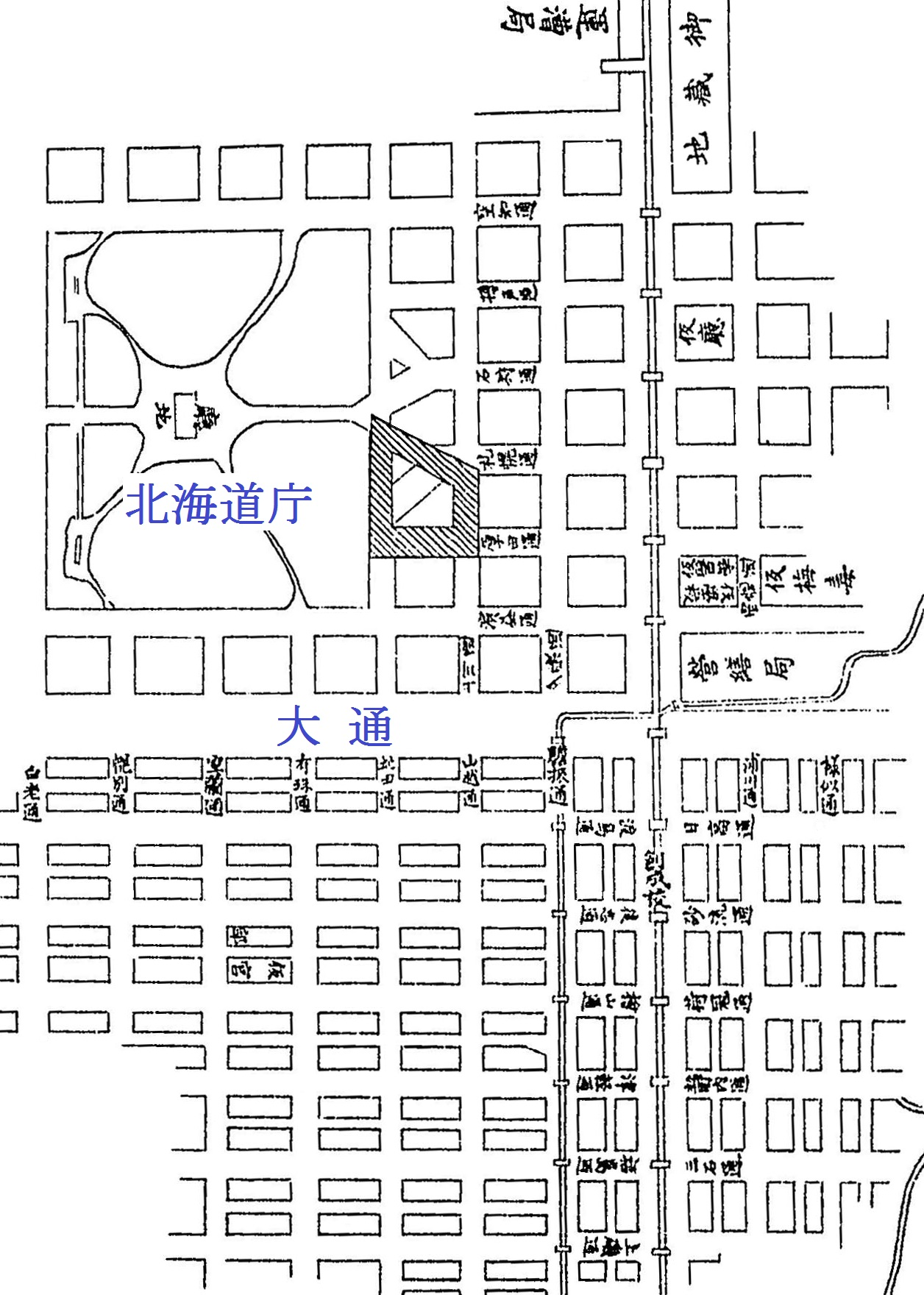 Map of Sapporo in 1875. Derivative Works(expository writing) by 目黒の隠居